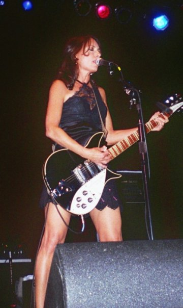 Susanna Hoffs performing at The House of Blues in Cleveland,, Ohio. August 30, 2007.